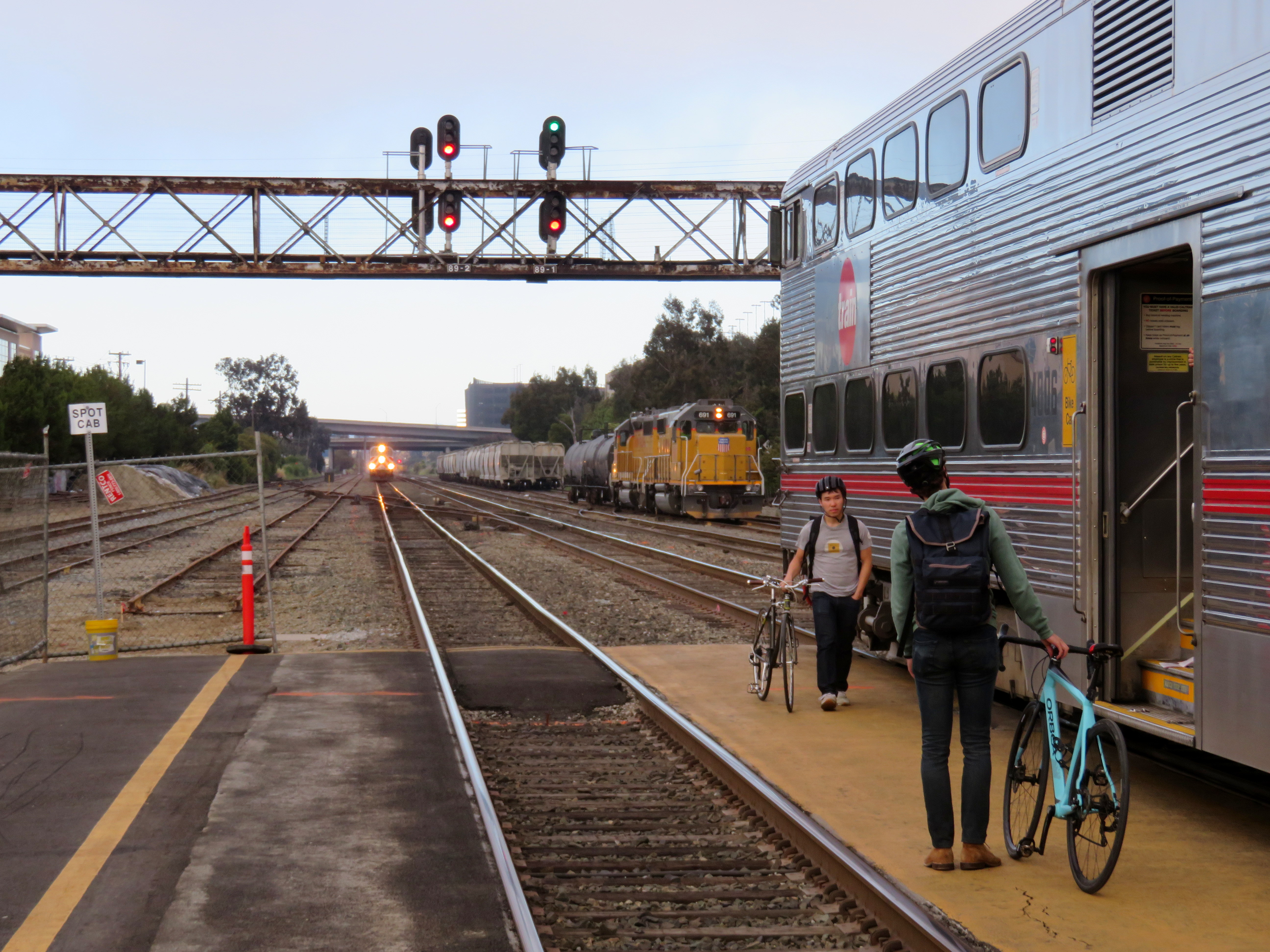 The "hold-out rule" South San Francisco station in July 2018 - the southbound train in the distance has to wait for the northbound train to depart, because the island platform is too narrow for a train to safely pass boarding passengers. At the time this photo was taken, a new wide platform was under construction to the south.